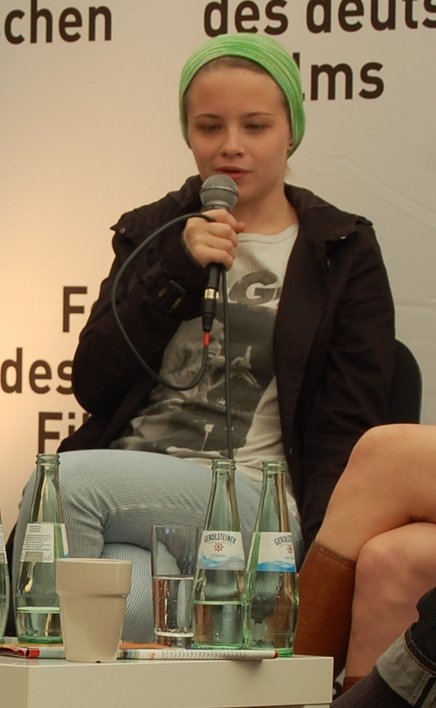 German movie actress Jasna Fritzi Bauer presenting the Movie "Für Elise" at the Festival des Deutschen Films (Festival of the German Movie) 2012 in Ludwigshafen.